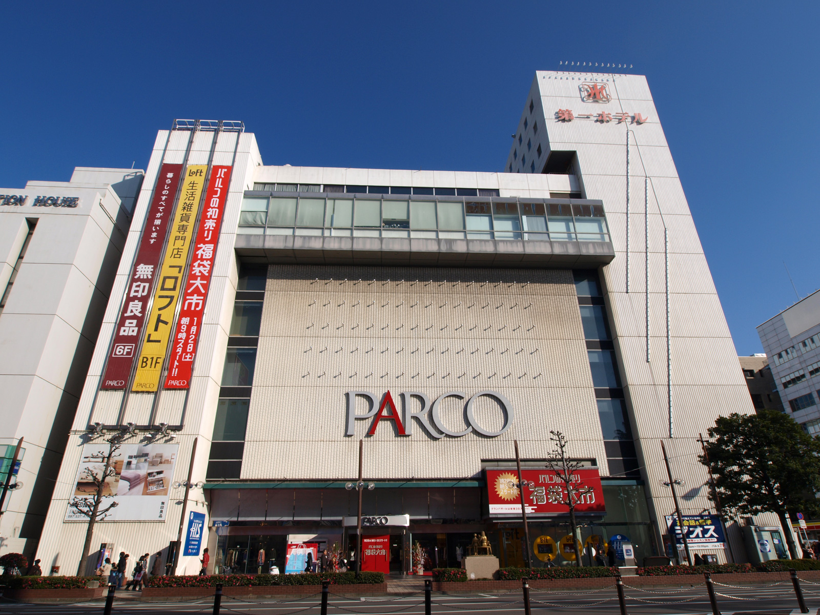 Oita Parco, Oita City, Oita, Japan